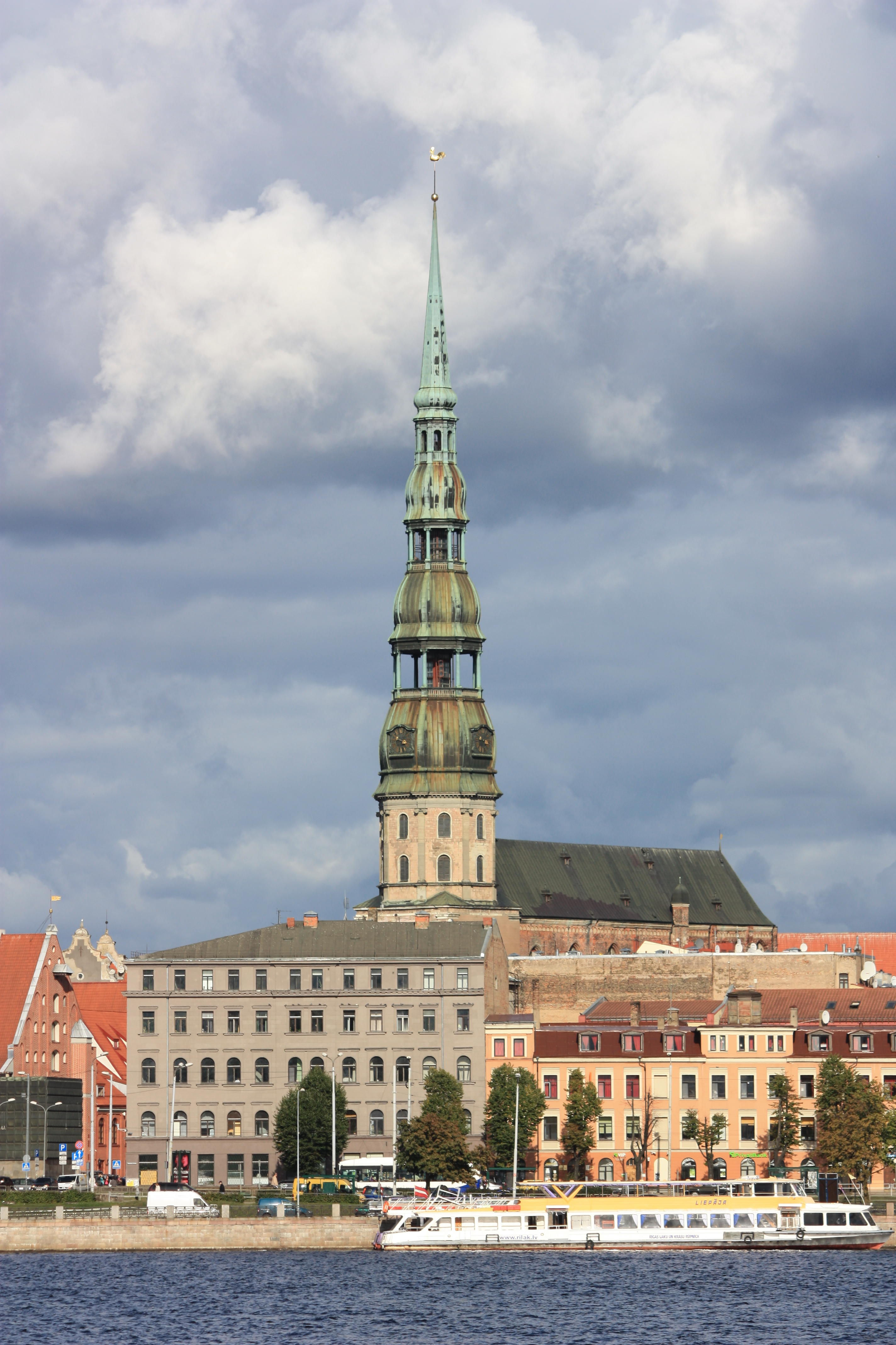 Riga, St Peter's Lutheran Church